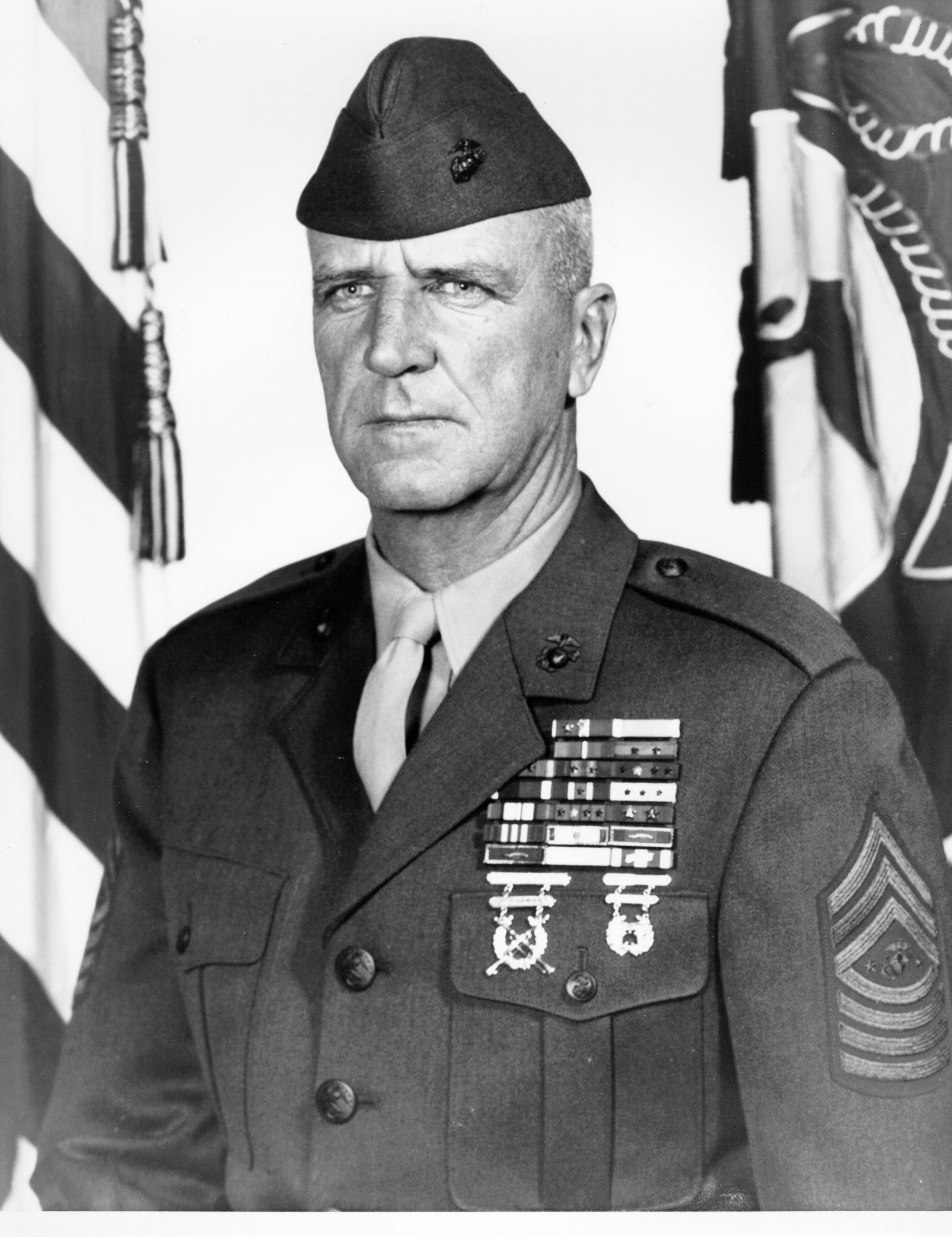 Leland D. Crawford, 9th Sergeant Major of the Marine Corps; high res image from official Marine Corps biography